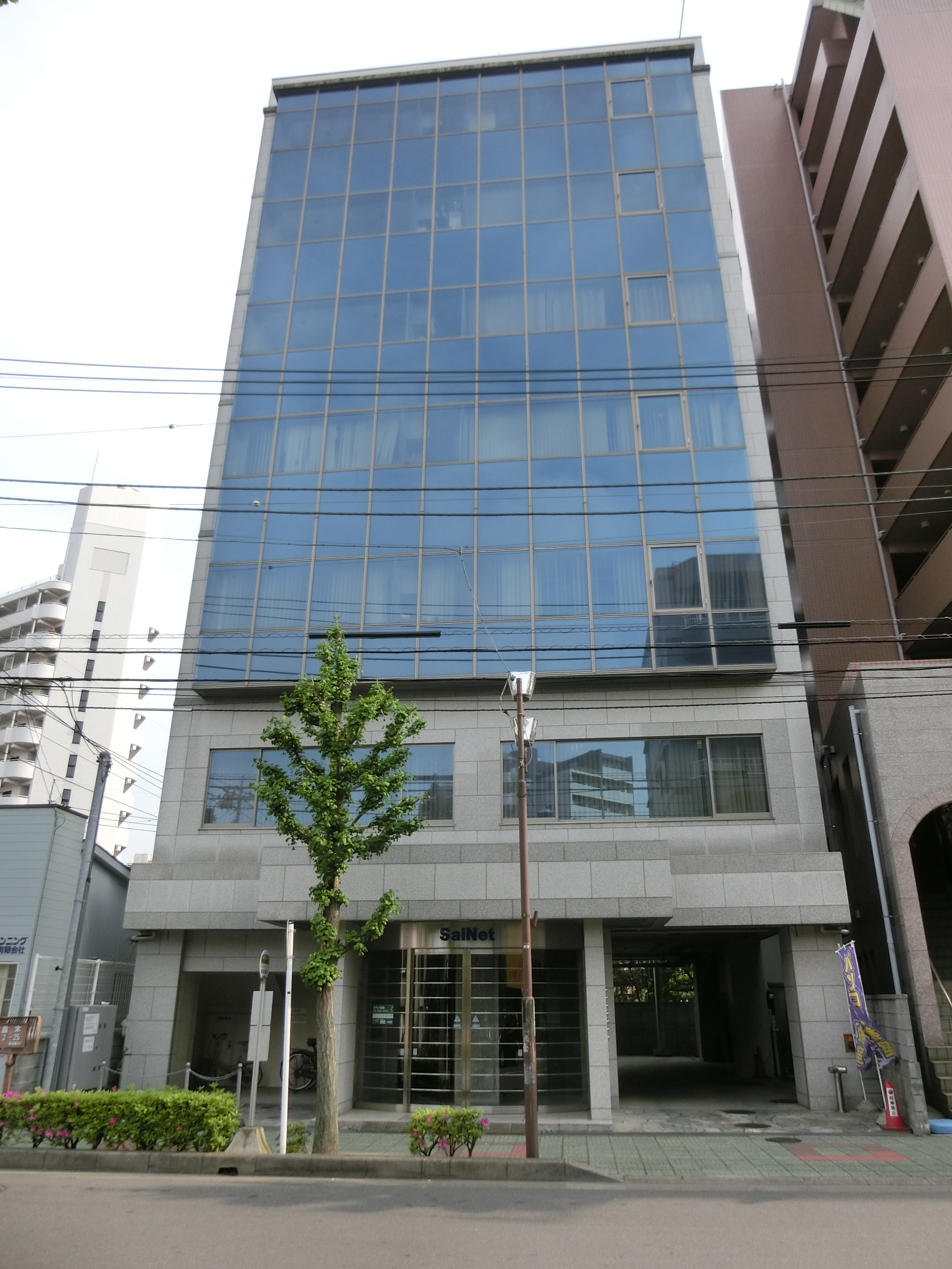 SaiNet Corporation Head Office